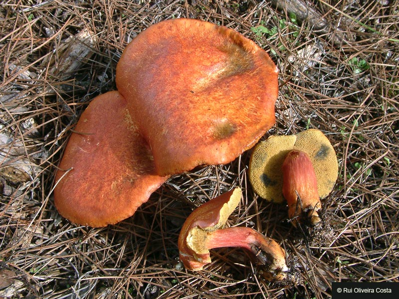 Xerocomus armeniacus (syn. Boletus armeniacus)growing under Quercus suber and Pinus